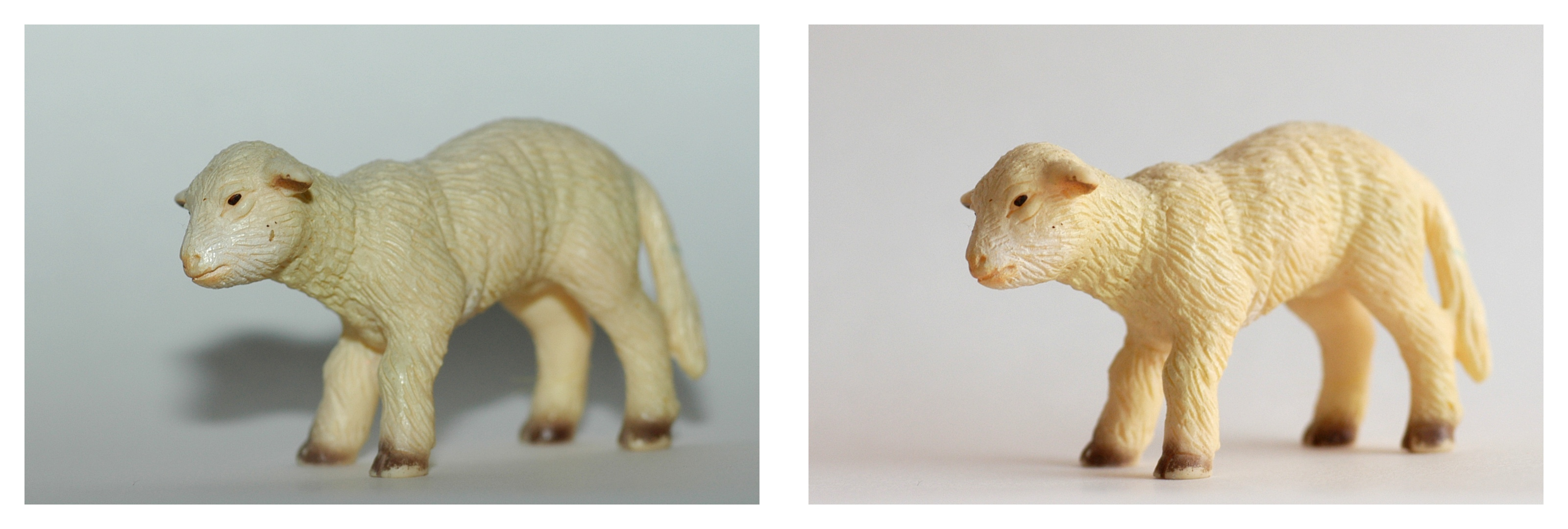 Flash: Direct and indirect